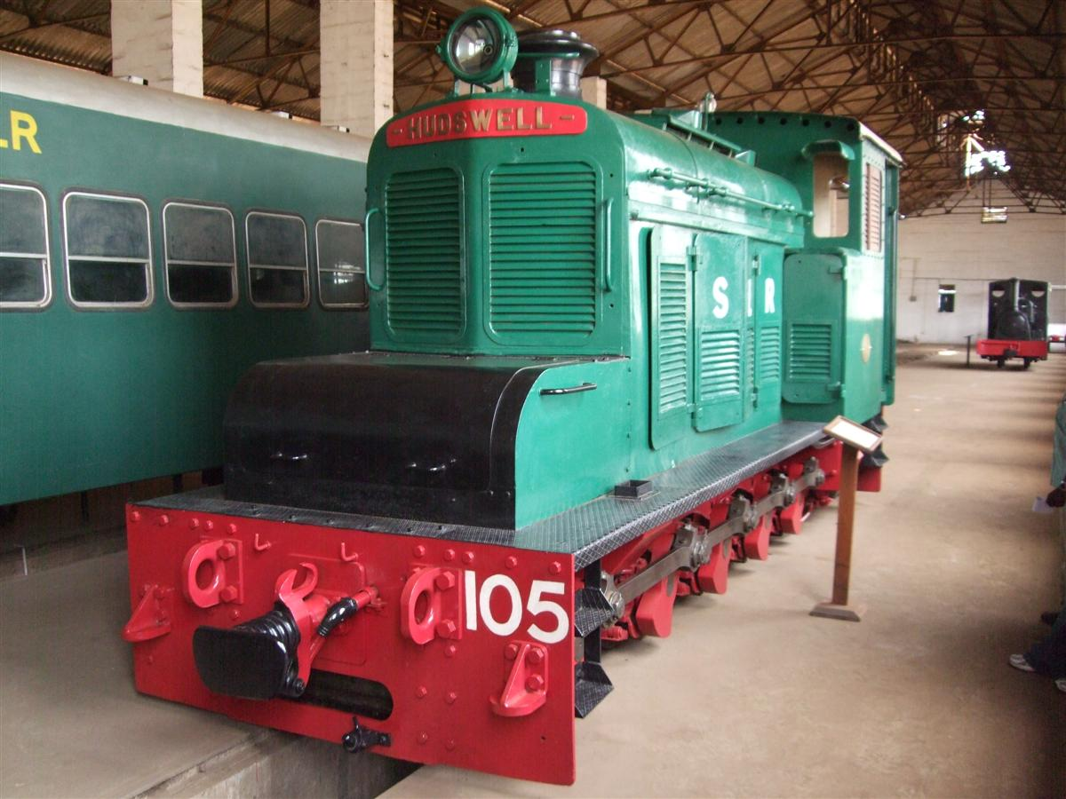 An exhibit at the Freetown Railway Museum.